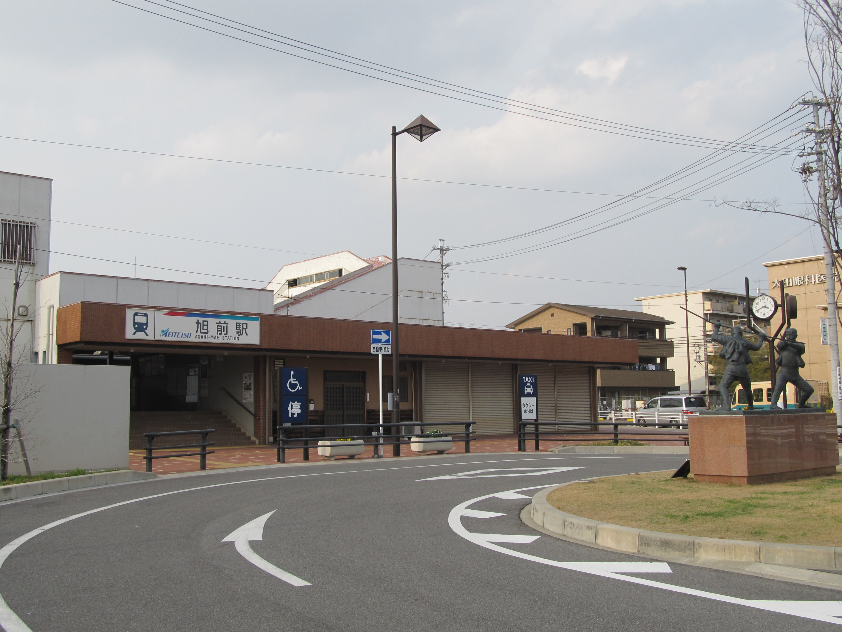 Nagoya Railroad Seto Line Asahi-mae Station Building